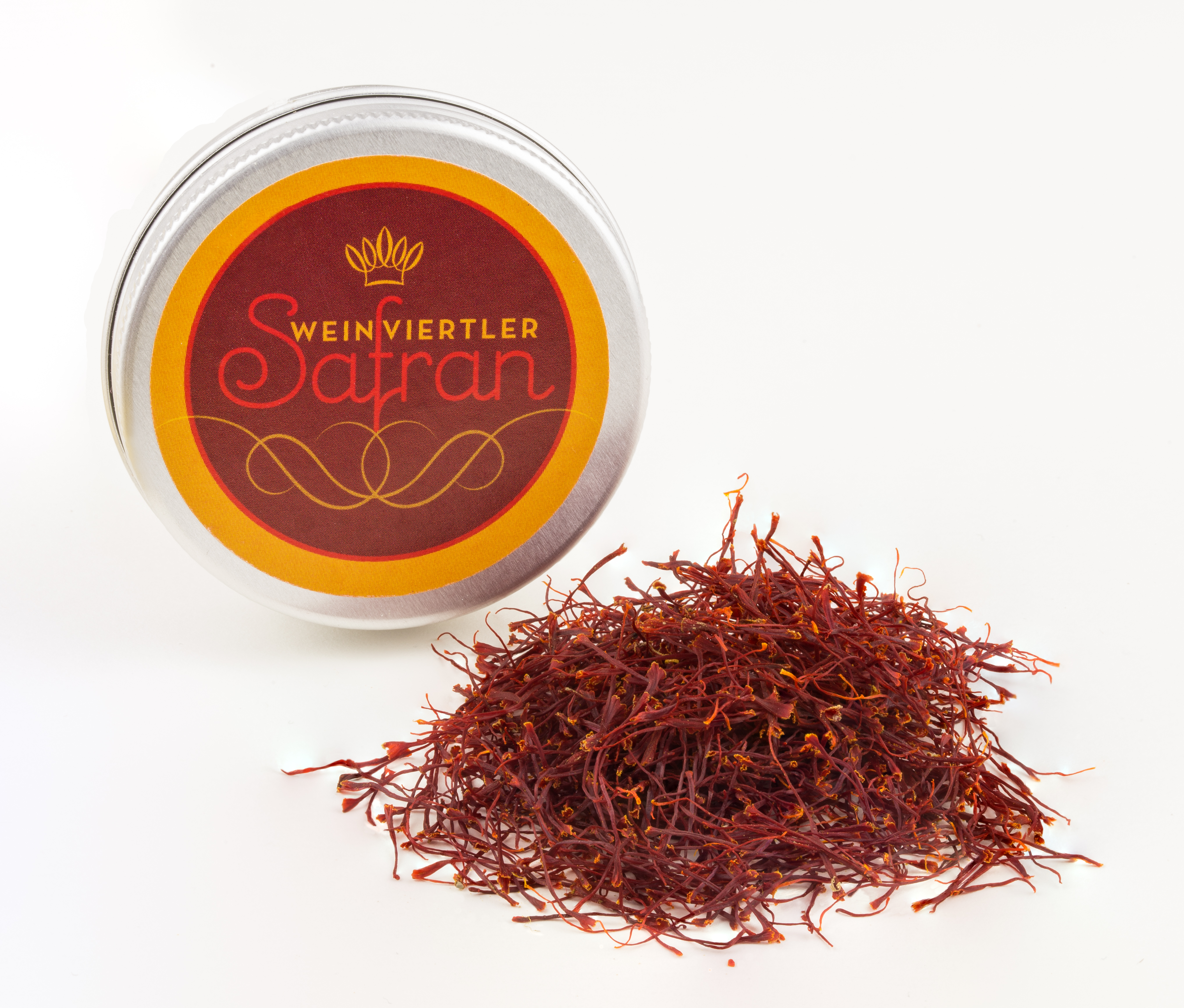 Saffron threads, Weinviertel (Niederreiter), Karmelitermarkt, Vienna, February 2015